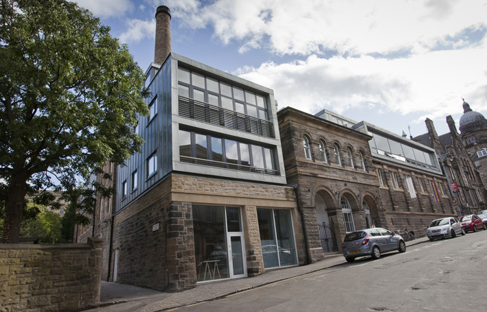 The refurbished exterior of Dovecot Studios, which used to house the Infirmary Street Baths.